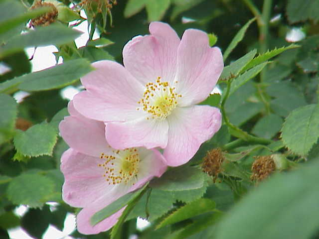 Species: Rosa canina Family: Rosaceae Image No. 3